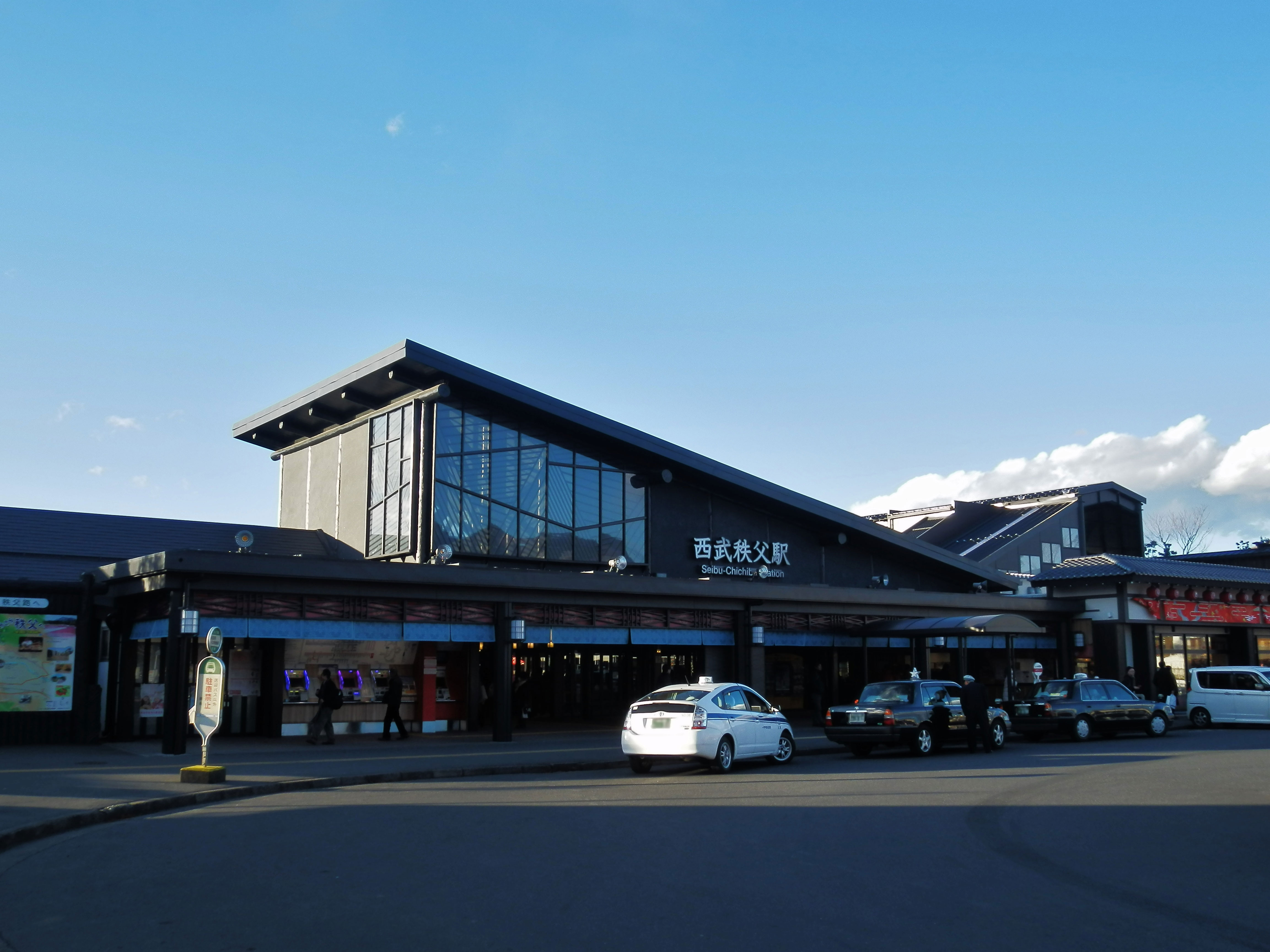 Seibu-Chichibu Station in Saitama Prefecture, Japan